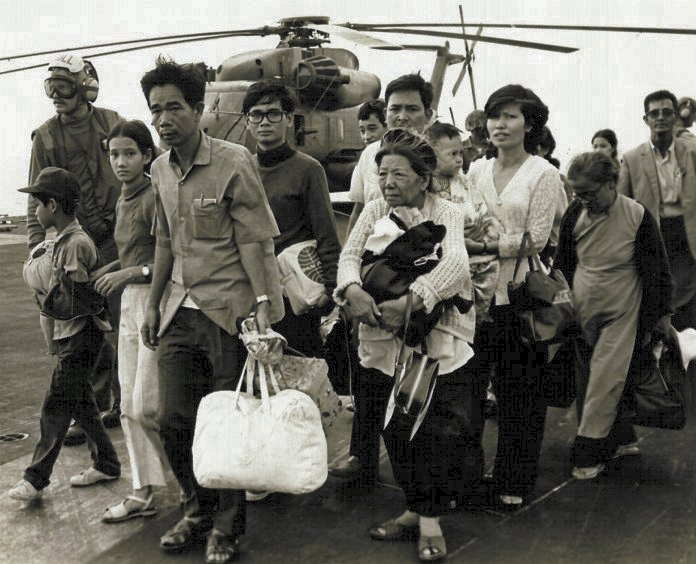 South Vietnamese refugees walk across a U.S. Navy vessel. Operation Frequent Wind, the final operation in Saigon, began April 29, 1975. During a nearly constant barrage of explosions, the Marines loaded American and Vietnamese civilians, who feared for their lives, onto helicopters that brought them to waiting aircraft carriers. The Navy vessels brought them to the Philippines and eventually to Camp Pendleton, Calif.